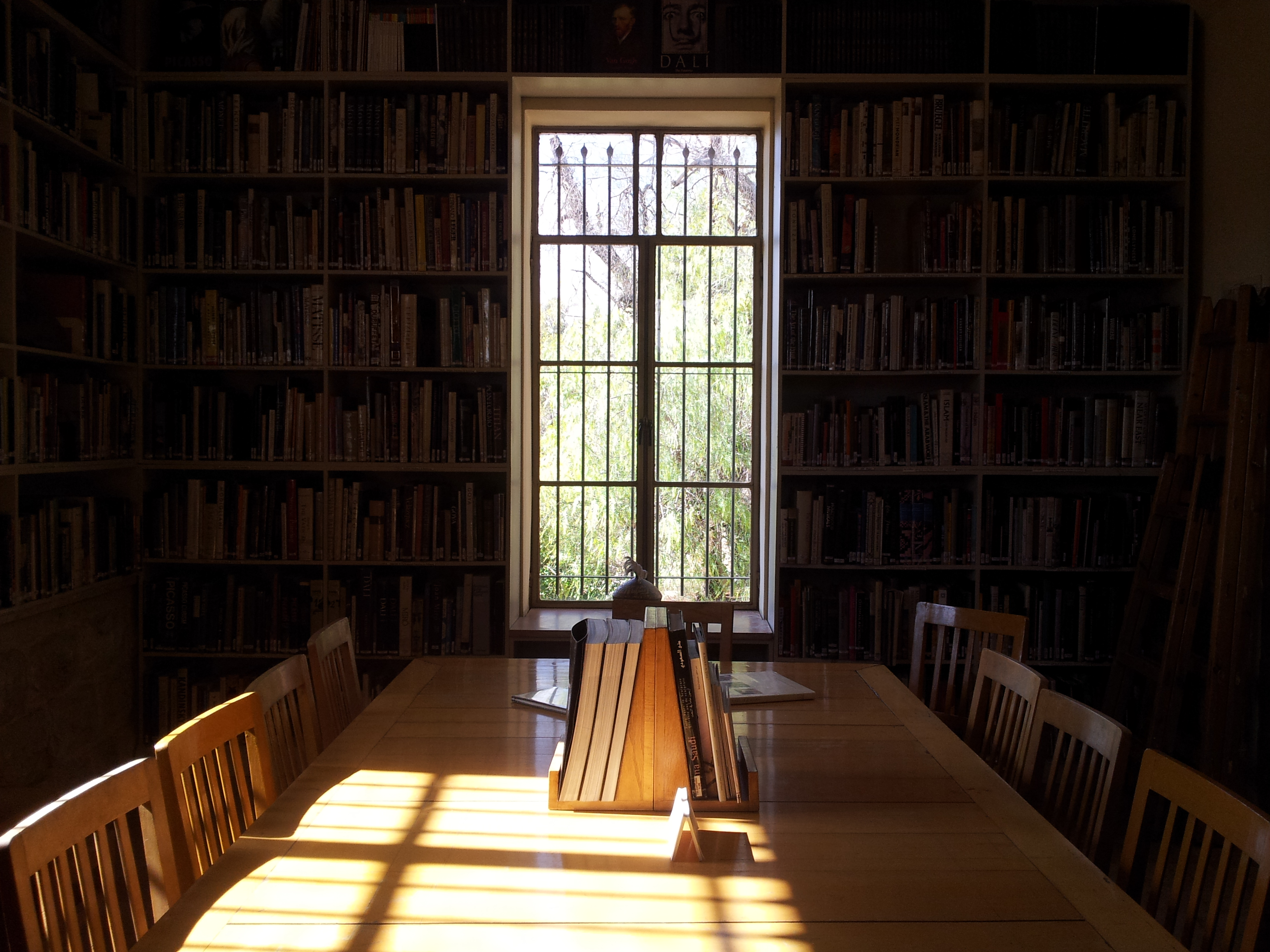 The Library inside Darat Al Funoun, Amman, Jordan